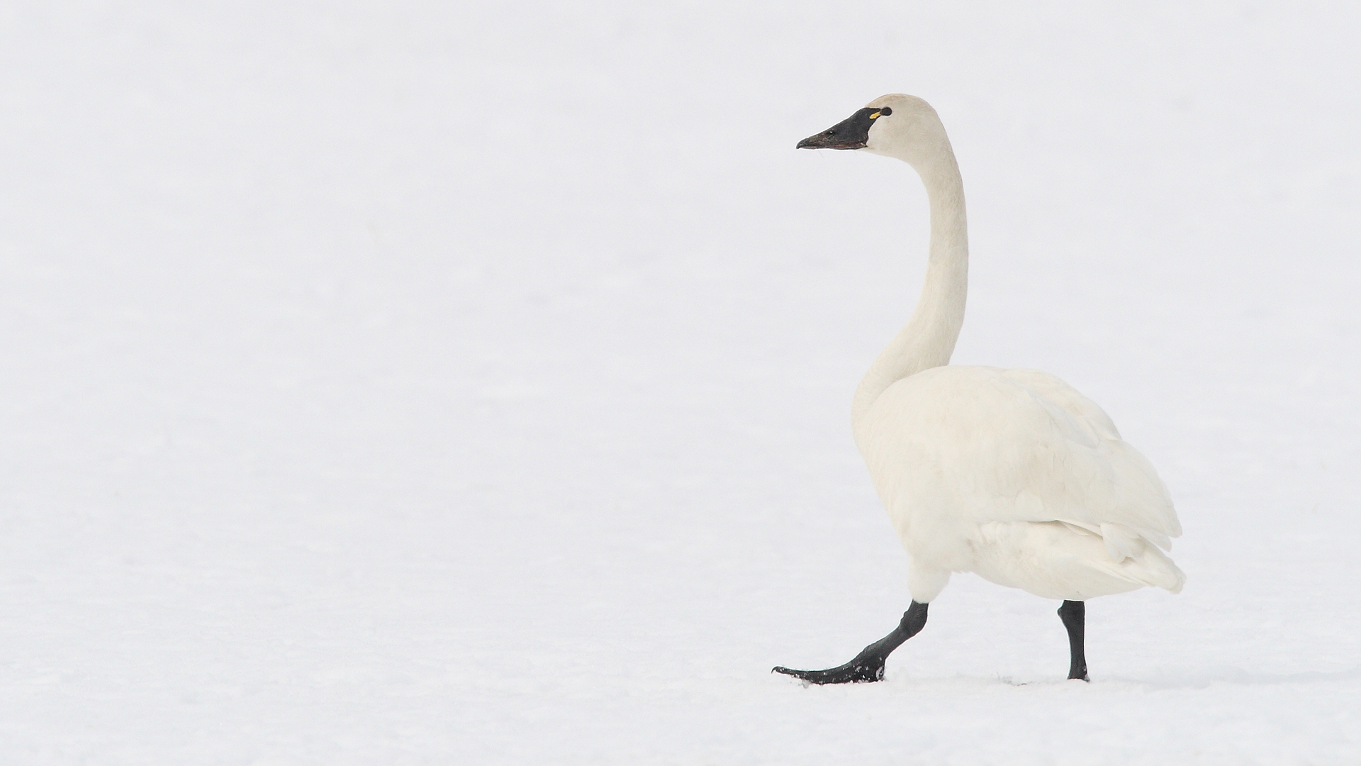 Tundra Swan -- near Long Point Provincial Park, Ontario, Canada -- 2008 March